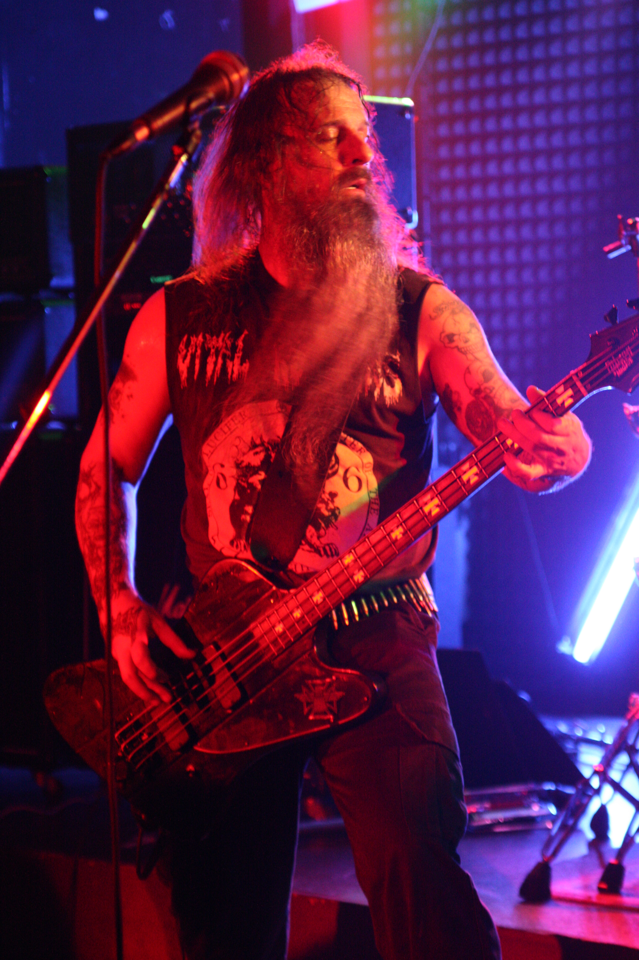 Paul Speckmann playing with Master in 2009.